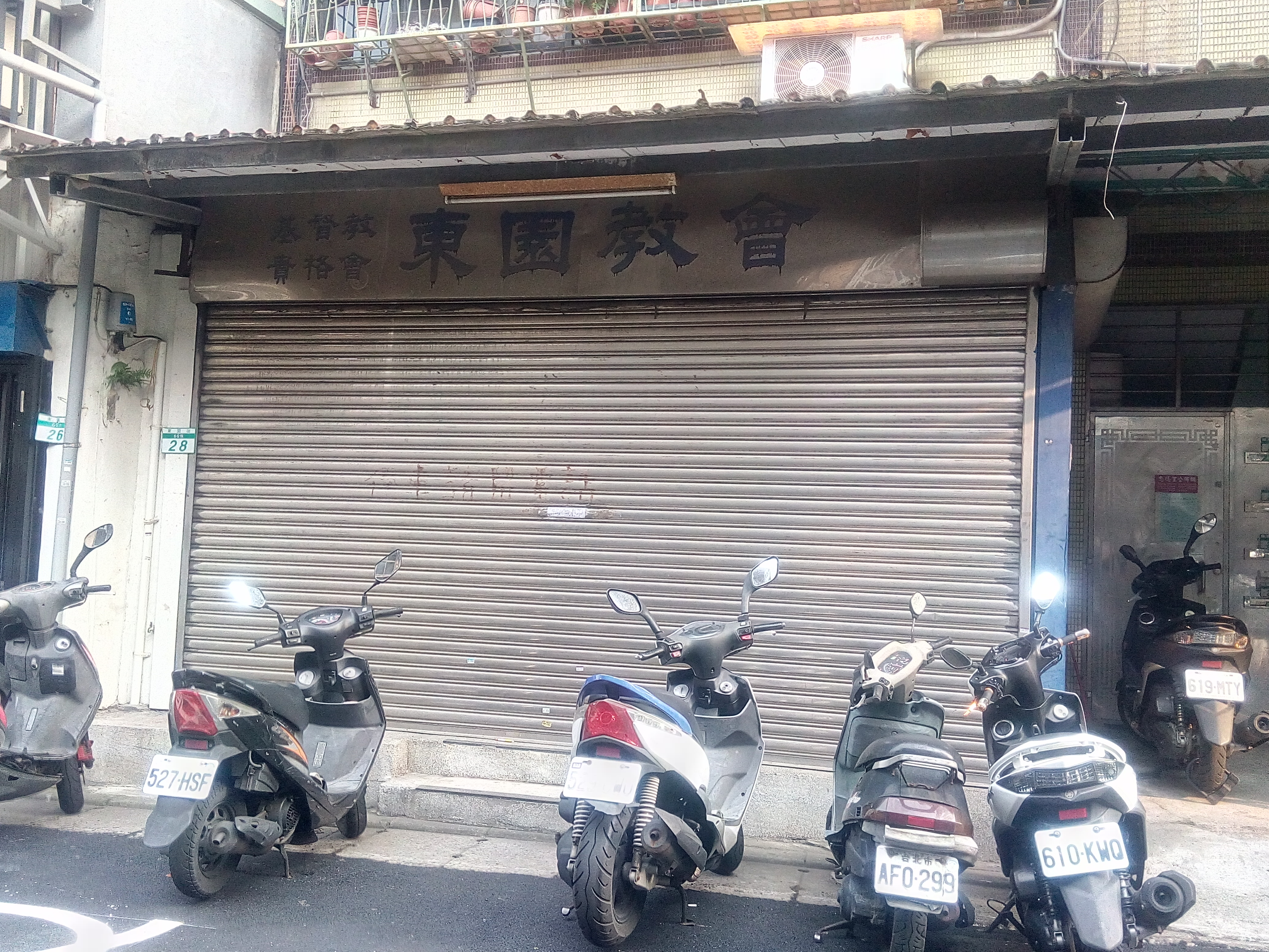 Christian Taiwan Quaker East Church is located on the 1st floor of No. 28, Lane 66, Dongyuan Street, Wanhua District, Taipei City.